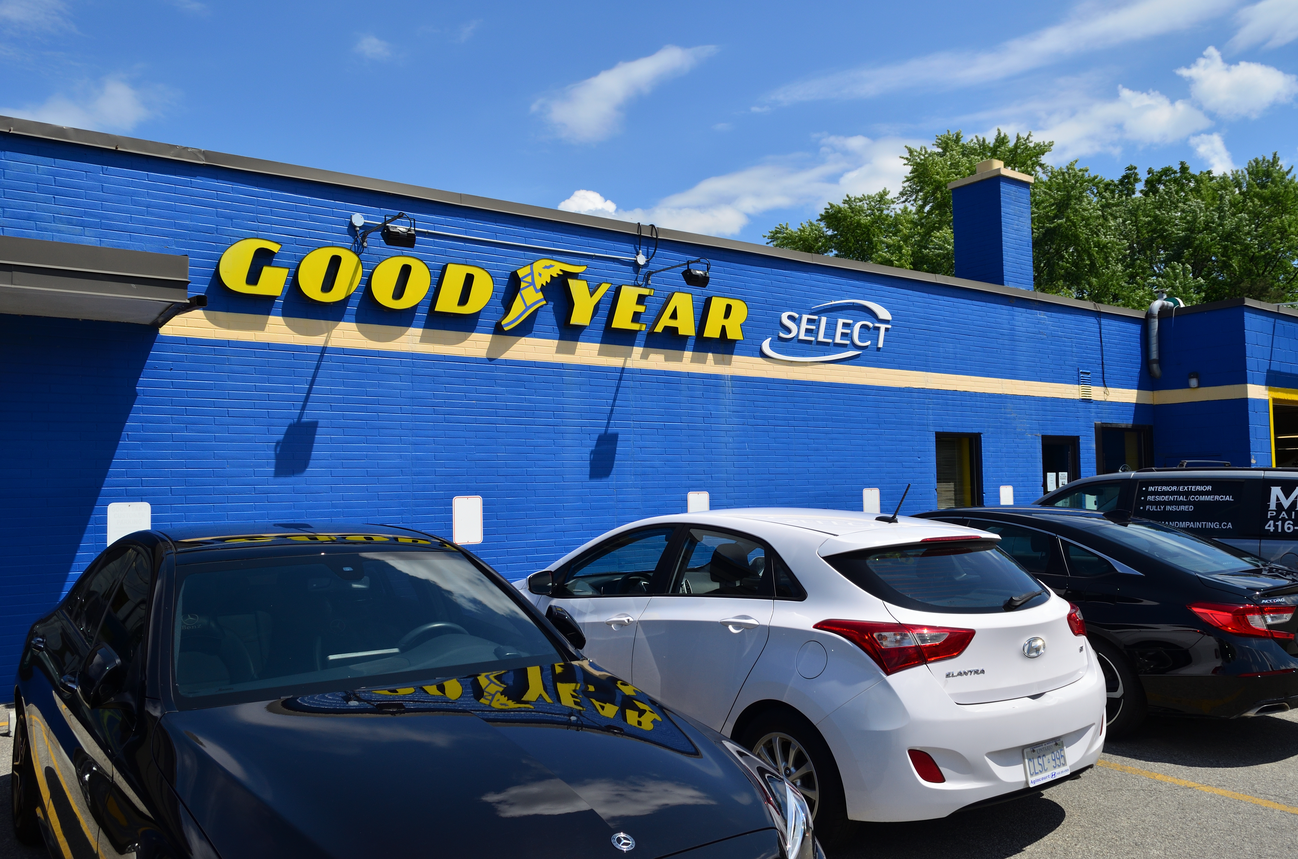 CAS Goodyear Select Markham - Address: 5797 Hwy 7, Markham, ON L3P 1A5